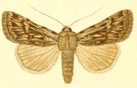 Image from Plate 7 of Die Gross-Schmetterlinge der Erde (The Macrolepidoptera of the World) Vol. 3